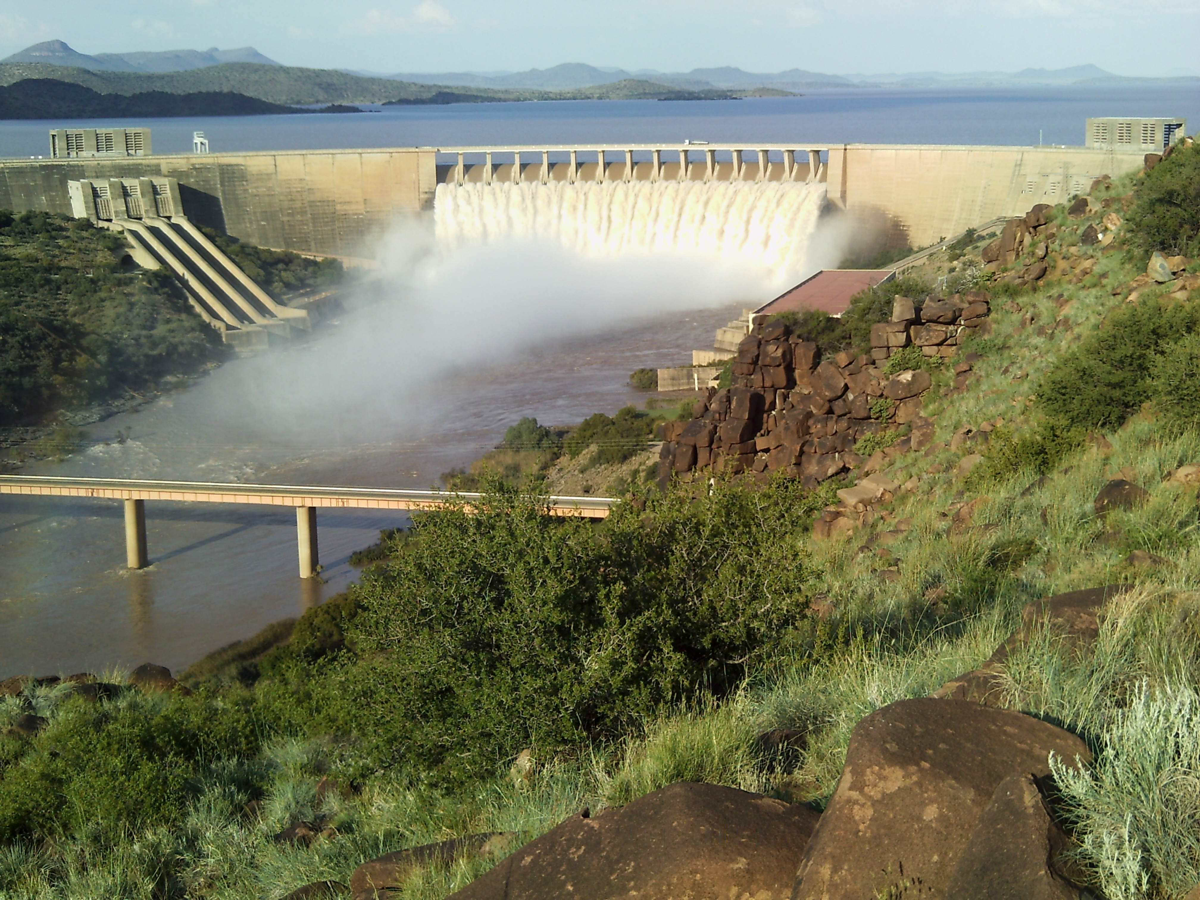 Photo: Gariep dam overflowing taken from a hill facing dam wall in Jan 2011